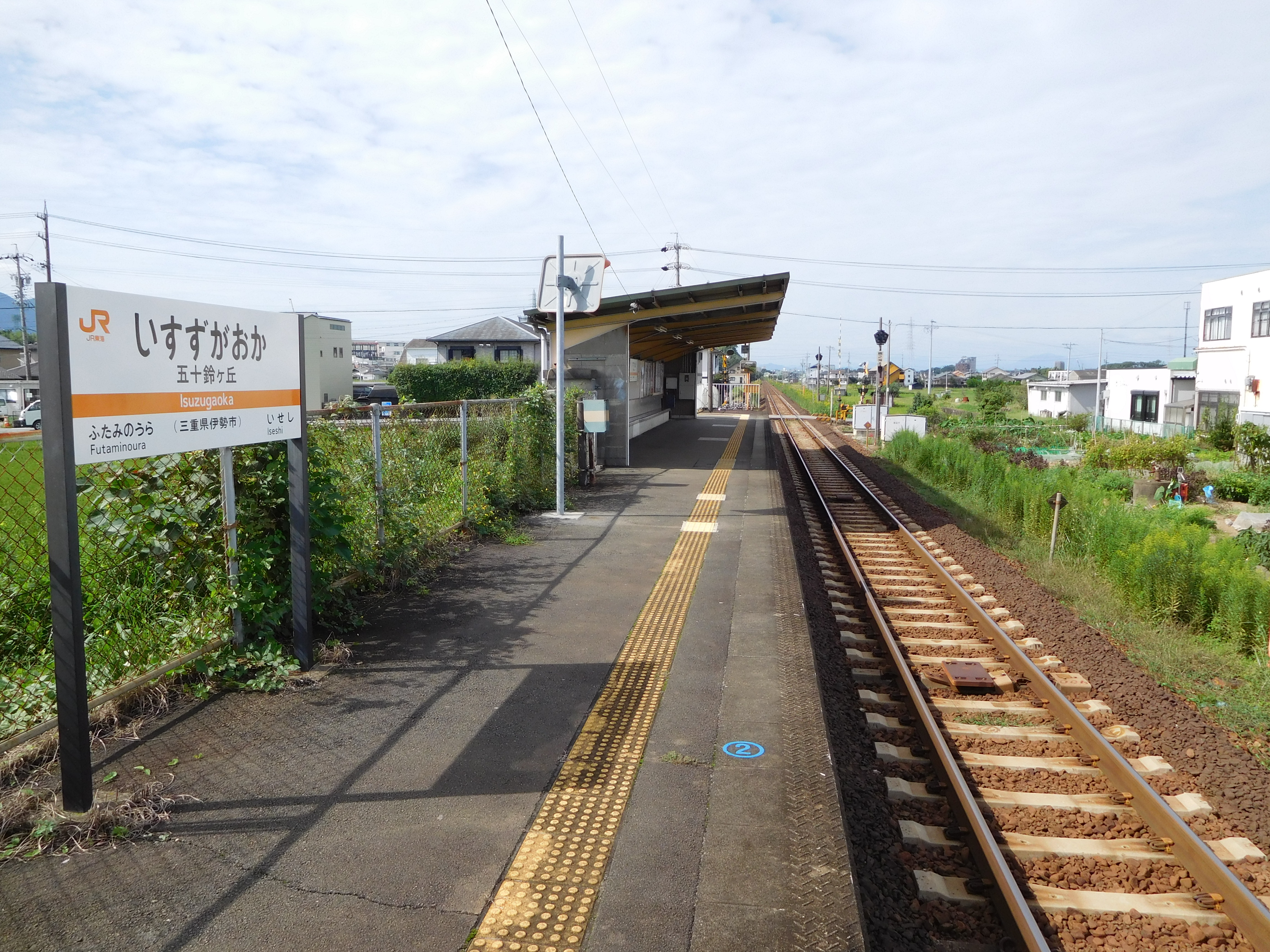 The platform at Isuzugaoka station in Ise, Mie Prefecture, Japan